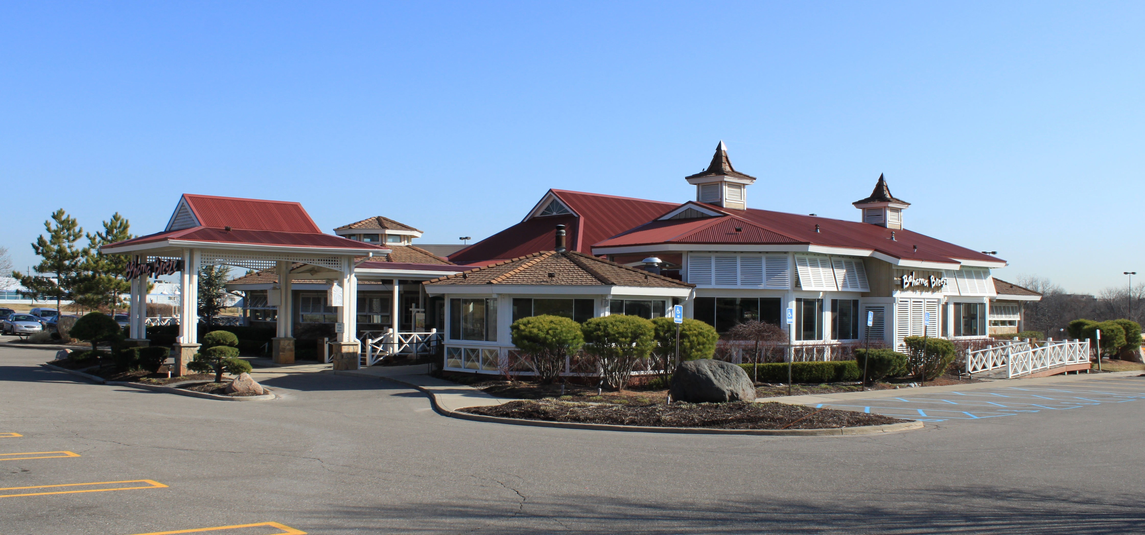 Bahama Breeze restaurant, 19600 Haggerty Road, Livonia, Michigan.